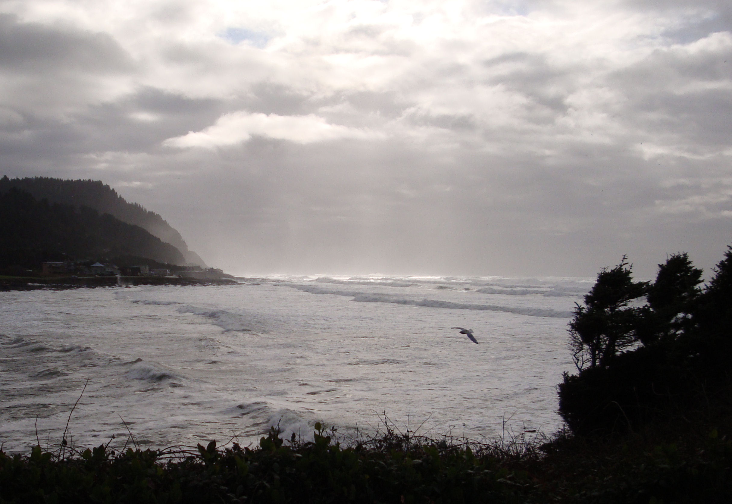 Estuary mouth of the Yachats River in Yachats. Cape Perpetua is in the background.